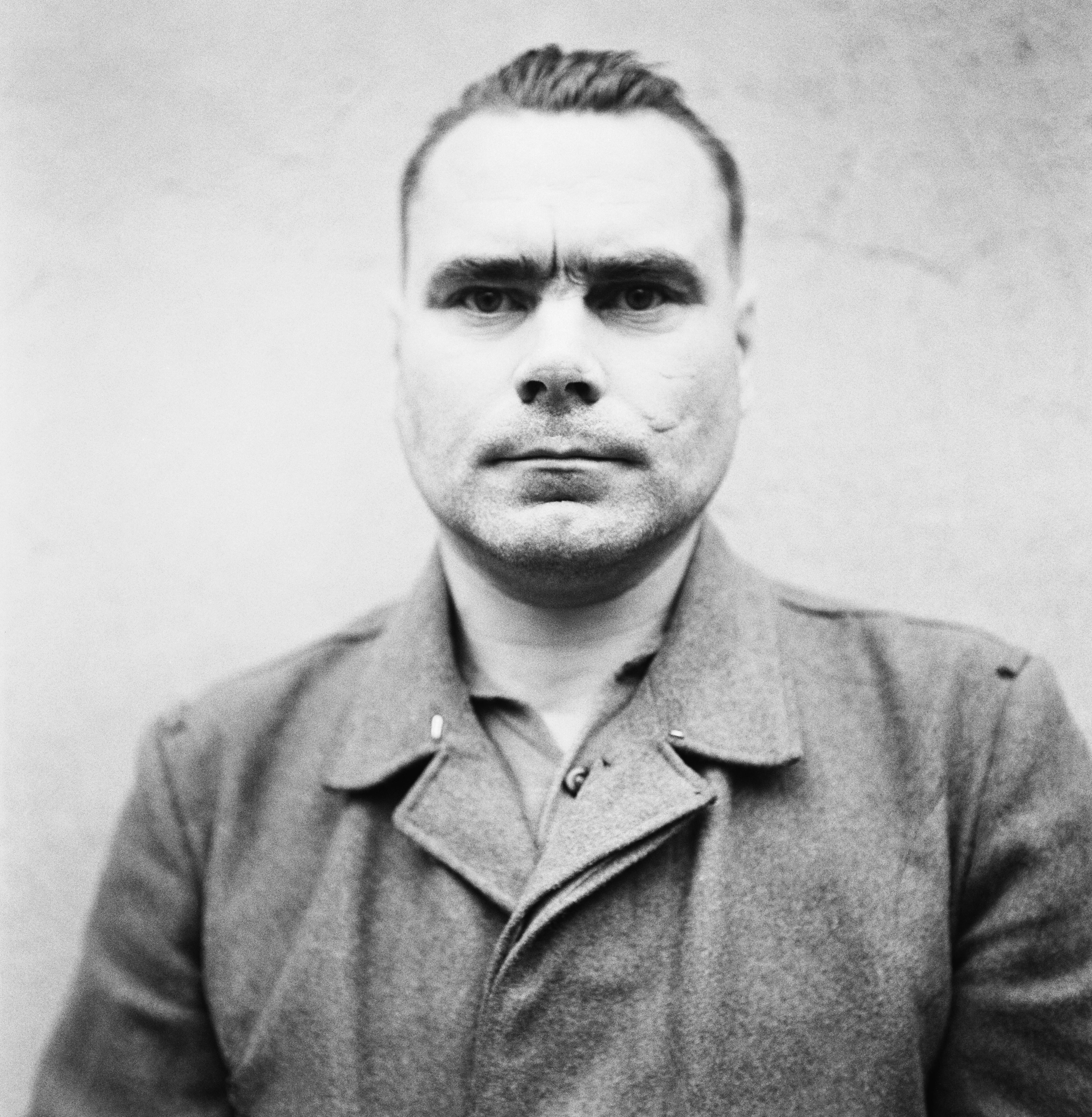 THE LIBERATION OF BERGEN-BELSEN CONCENTRATION CAMP 1945: PORTRAITS OF BELSEN GUARDS AT CELLE AWAITING TRIAL, AUGUST 1945 [Official photographPortrait photograph (formal)] WAR OFFICE SECOND WORLD WAR OFFICIAL COLLECTION